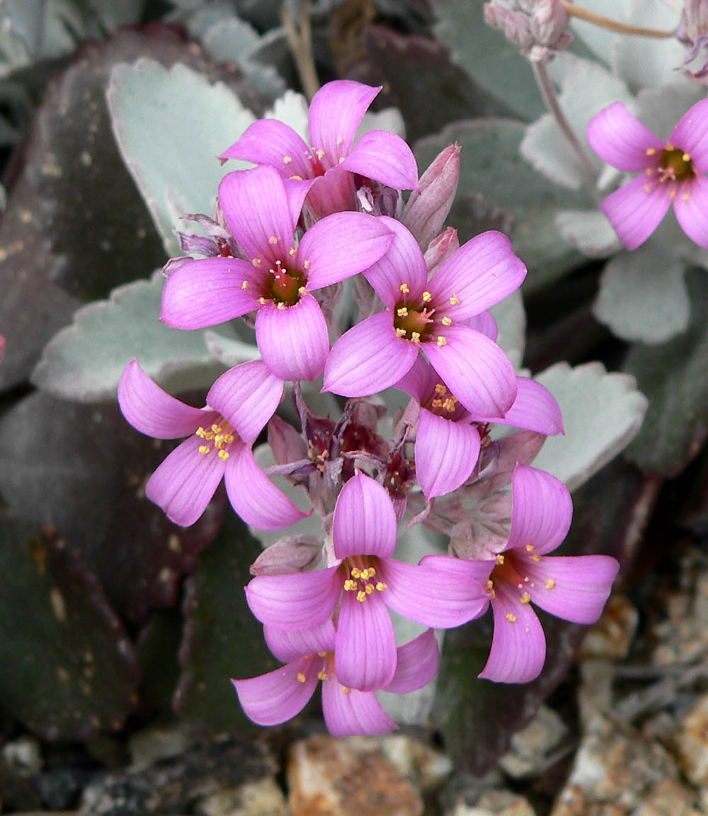 Photo of Kalanchoe pumila at the University of California Botanical Garden